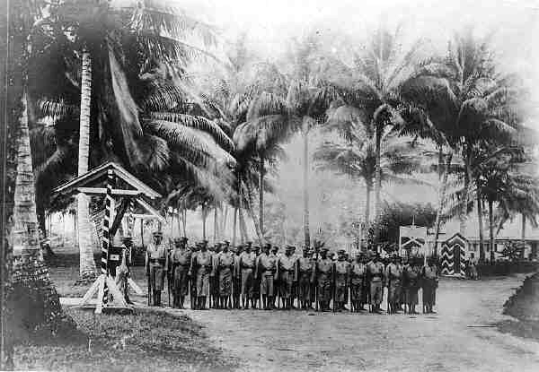 Papuan troops on New Britain under German command undertake drill just prior to the outbreak of war.